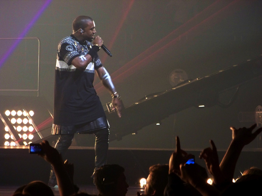 Kanye West on the watch the throne tour